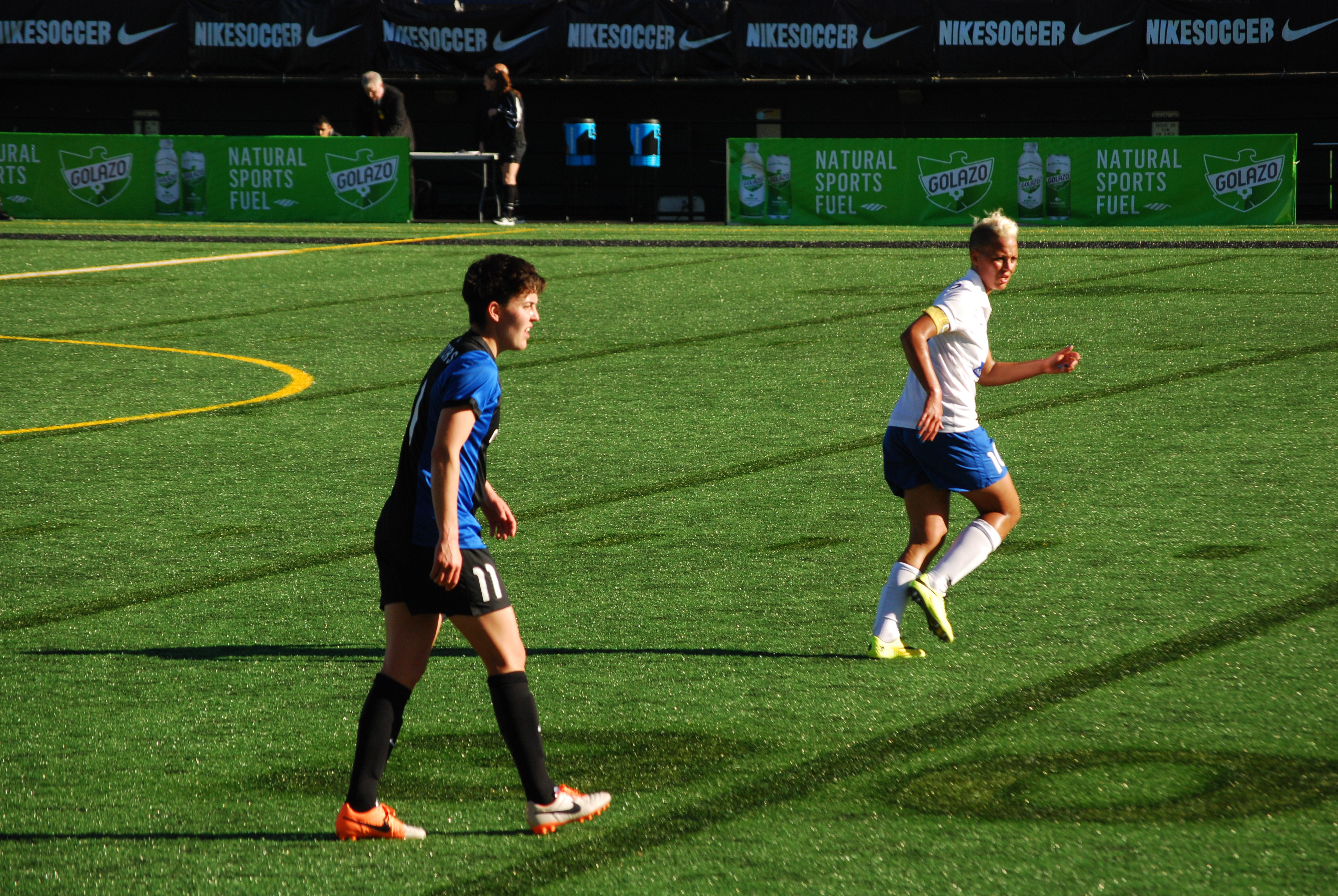 Seattle Reign FC vs Boston Breakers, April 13, 2014 at Memorial Stadium in Seattle, Washington